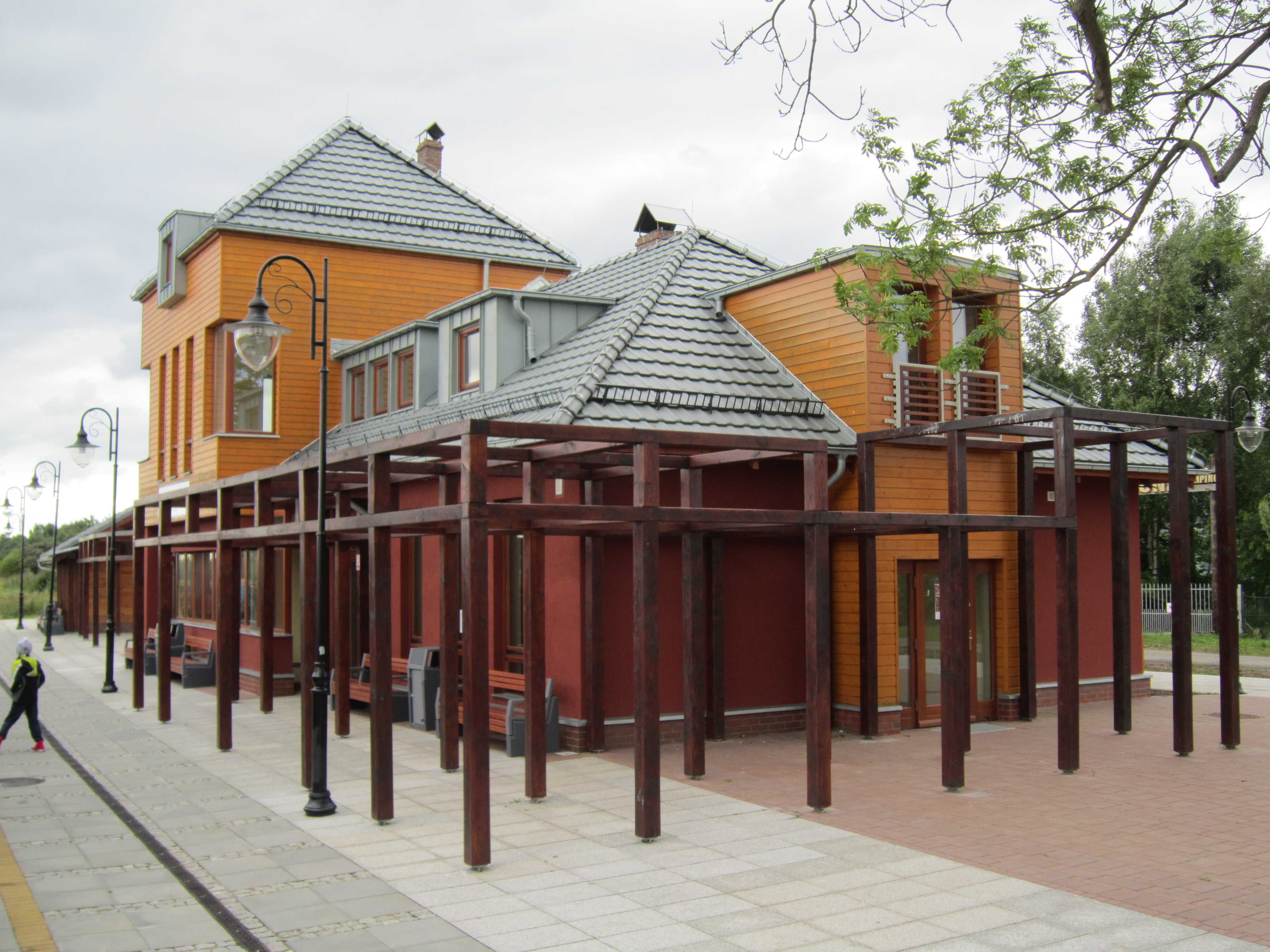 Niechorze Latarnia train station of the "Nadmorska Kolej Wąskotorówka" 2015